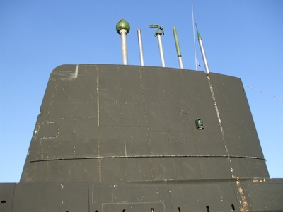 HMCS Onondaga S73, submarine turret ( Oberon Class ).